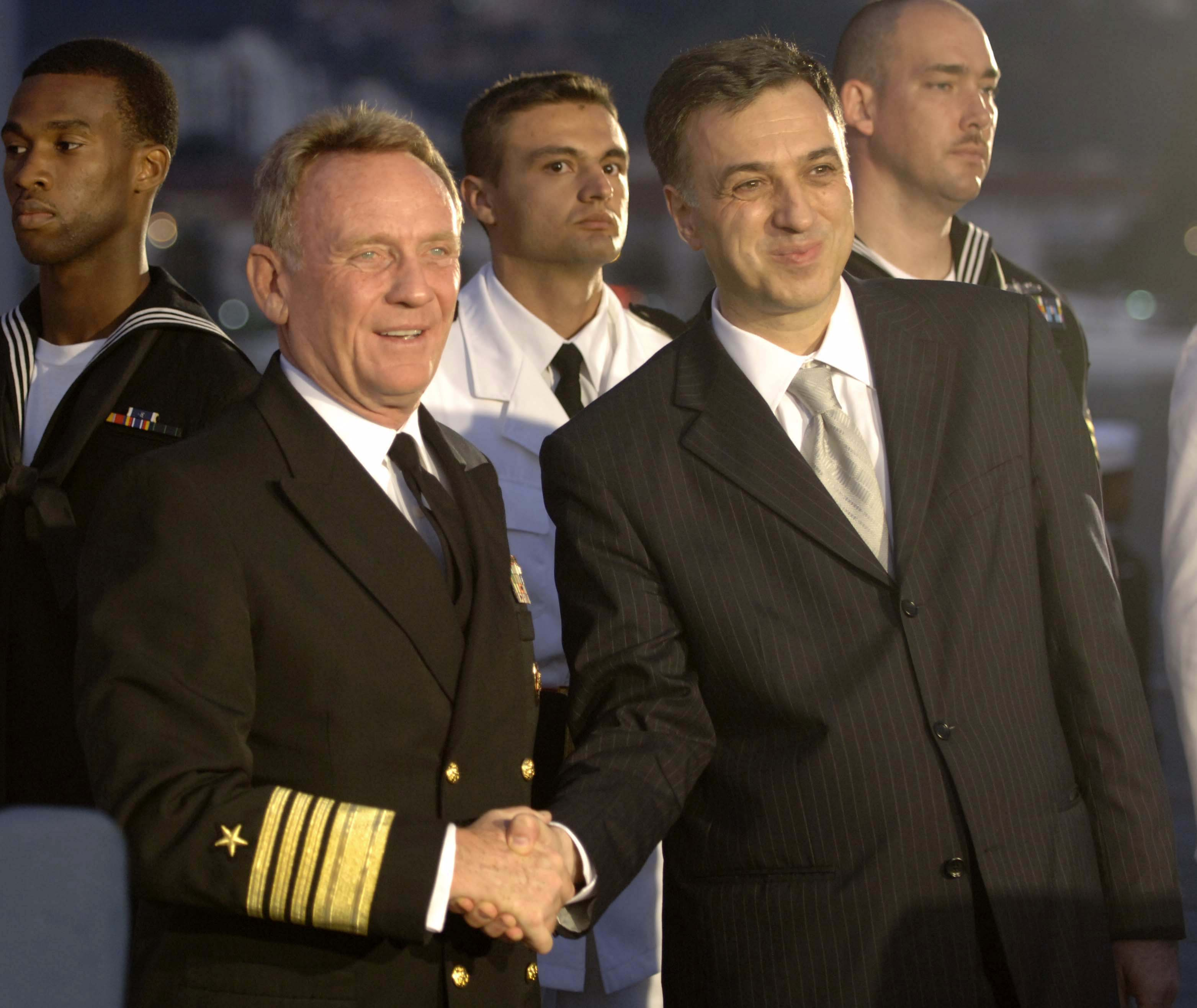 Tivat, Montenegro (Oct. 25, 2006) – The President of Montenegro, Filip Vujanovic, and Commander, U.S. Naval Forces Europe Adm. Harry Ulrich III, shake hands during a reception aboard the guided missile cruiser USS Anzio (CG 68). U.S. Navy photo by Mass Communication Specialist 3rd Class Matthew D. Leistikow (RELEASED)